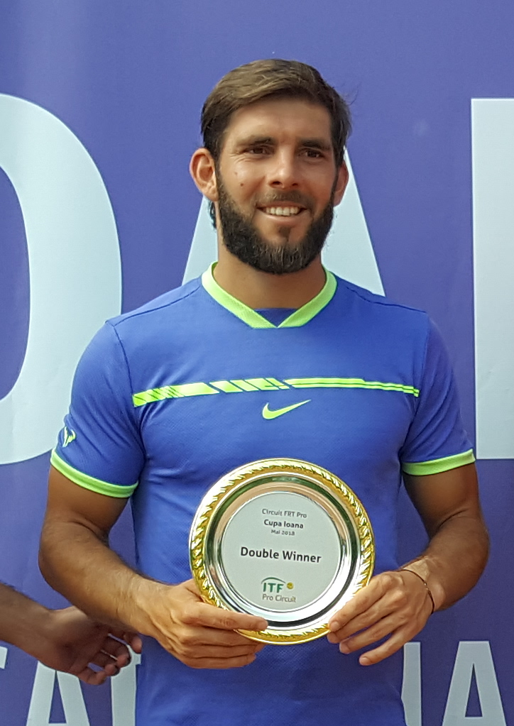 Romanian professional tennis players Vasile ANTONESCU (ROU) / Patrick GRIGORIU (ROU) [1] def. 6-1 6-4 Victor Vlad CORNEA (ROU) / Victor CRIVOI (ROU) at the Ioana Cup Doubles Finals 2018 Romania Futures1 – held at the Tenis Club Herastrau in Bucharest, 25 May 2018.